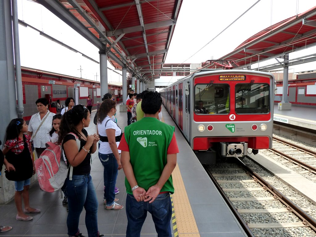 Villa El Salvador Station of Lima Metro Line 1.